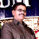 celebrities at Hum Log Showbiz Awards 2013. (r-l) Mohan Mirchandani, Sudhakar Bokade, Shravan Kumar.